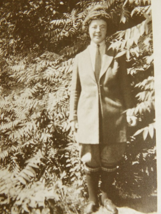 This is a picture of petroleum scientist Fanny Carter Edson in the field